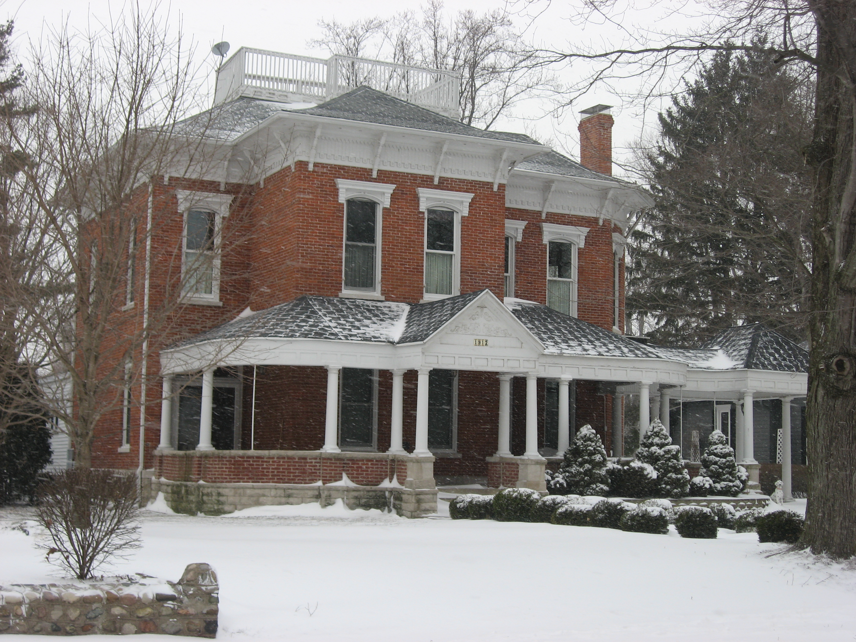 Front and western side of the Henry Tousley House, located at 1912 E. High Street in Logansport, Indiana, United States. Built in 1910, it is listed on the National Register of Historic Places.